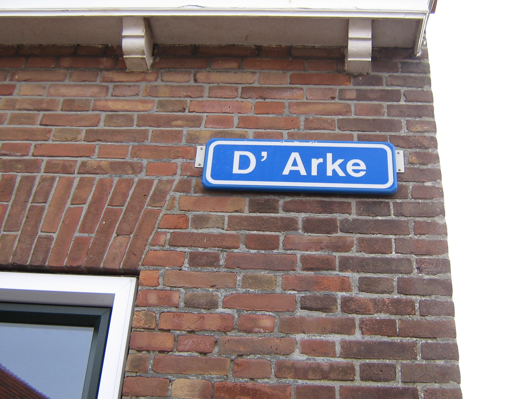 Street sign in Zeelandic, Westkapelle.